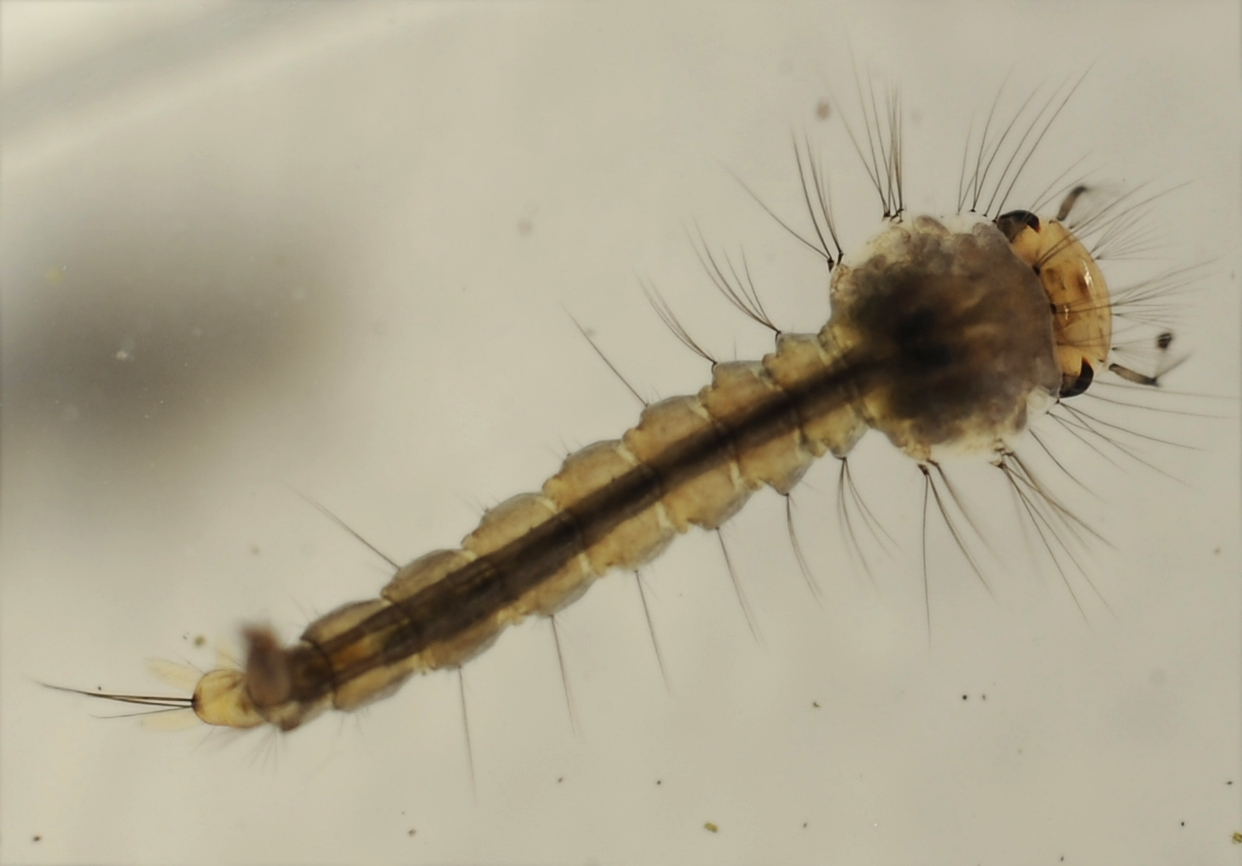 Mosquito larva